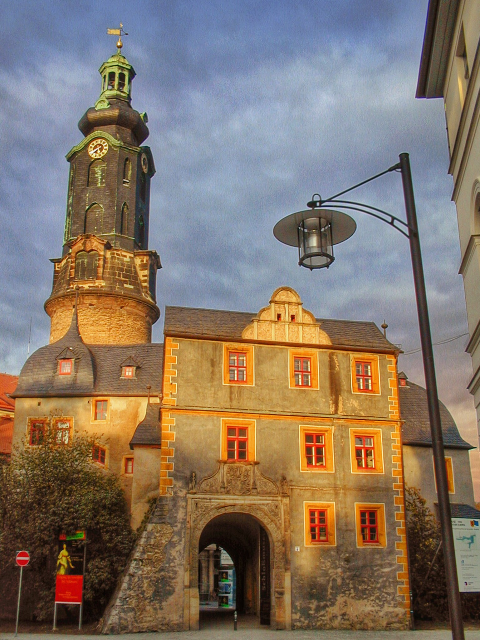 Unesco world heritage city of Weimar, Thuringia